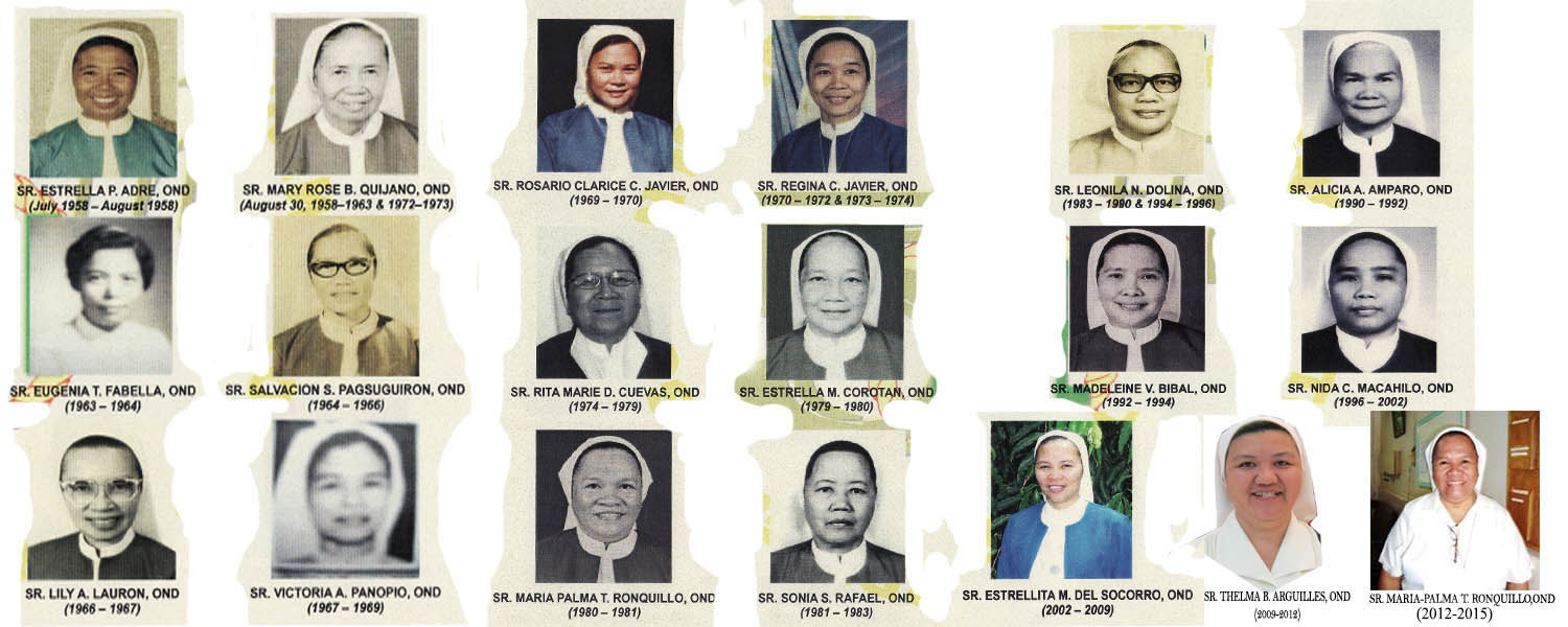 Image is done at Notre Dame of Genio Edcor, Inc. Alamada, Cotabato, Philippines on June 25, 2015 by Mr. Ian Dela Cruz